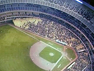 Aerial view of Shea Stadium from Prelinger Archives video on the 1964 World's Fair. * Screen capture from the film located at: This movie is part of the collection: Prelinger Archives